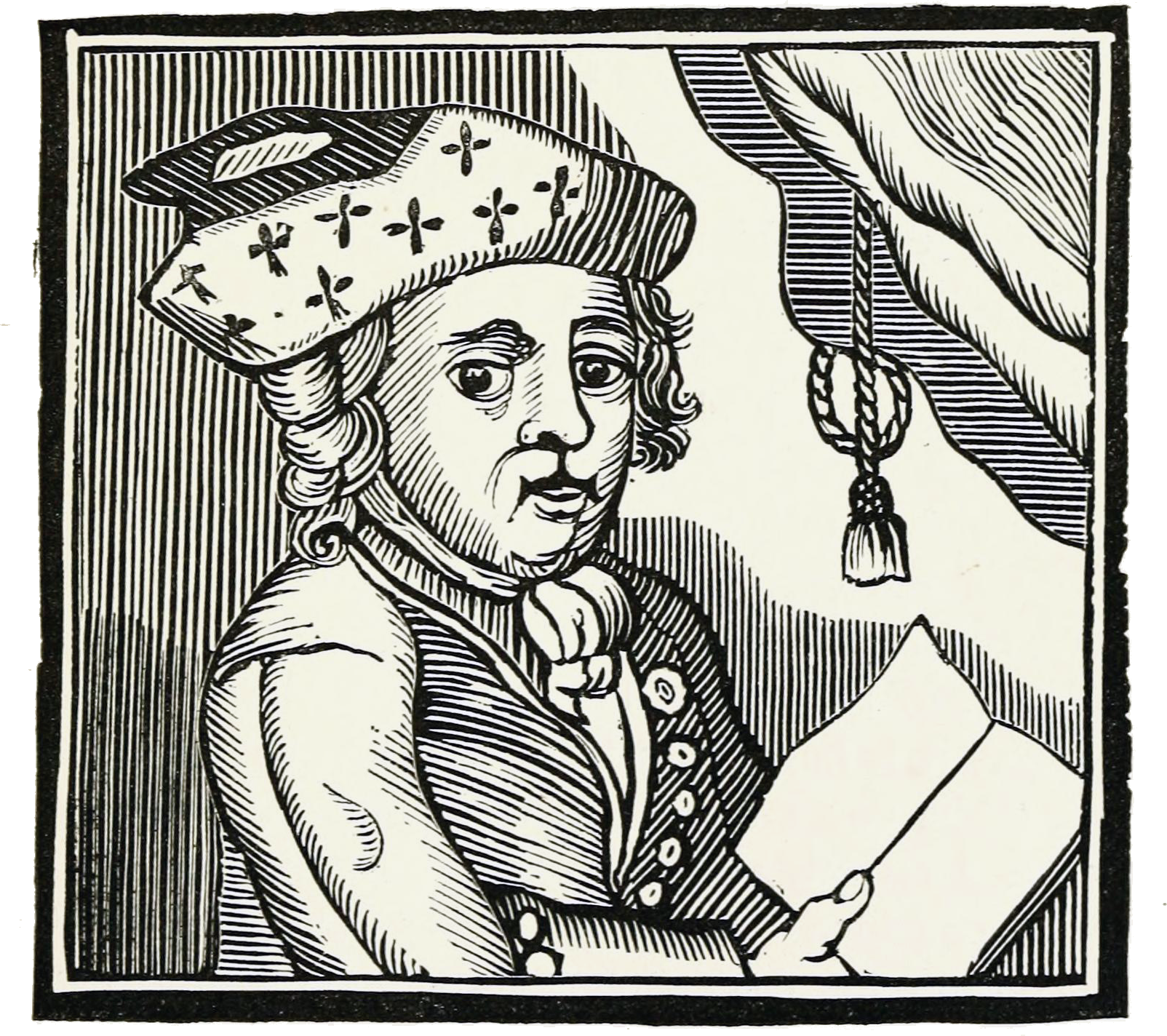 Illustration from an 18th century chapbook reproduced in Chap-books of the eighteenth century by John Ashton (1834).